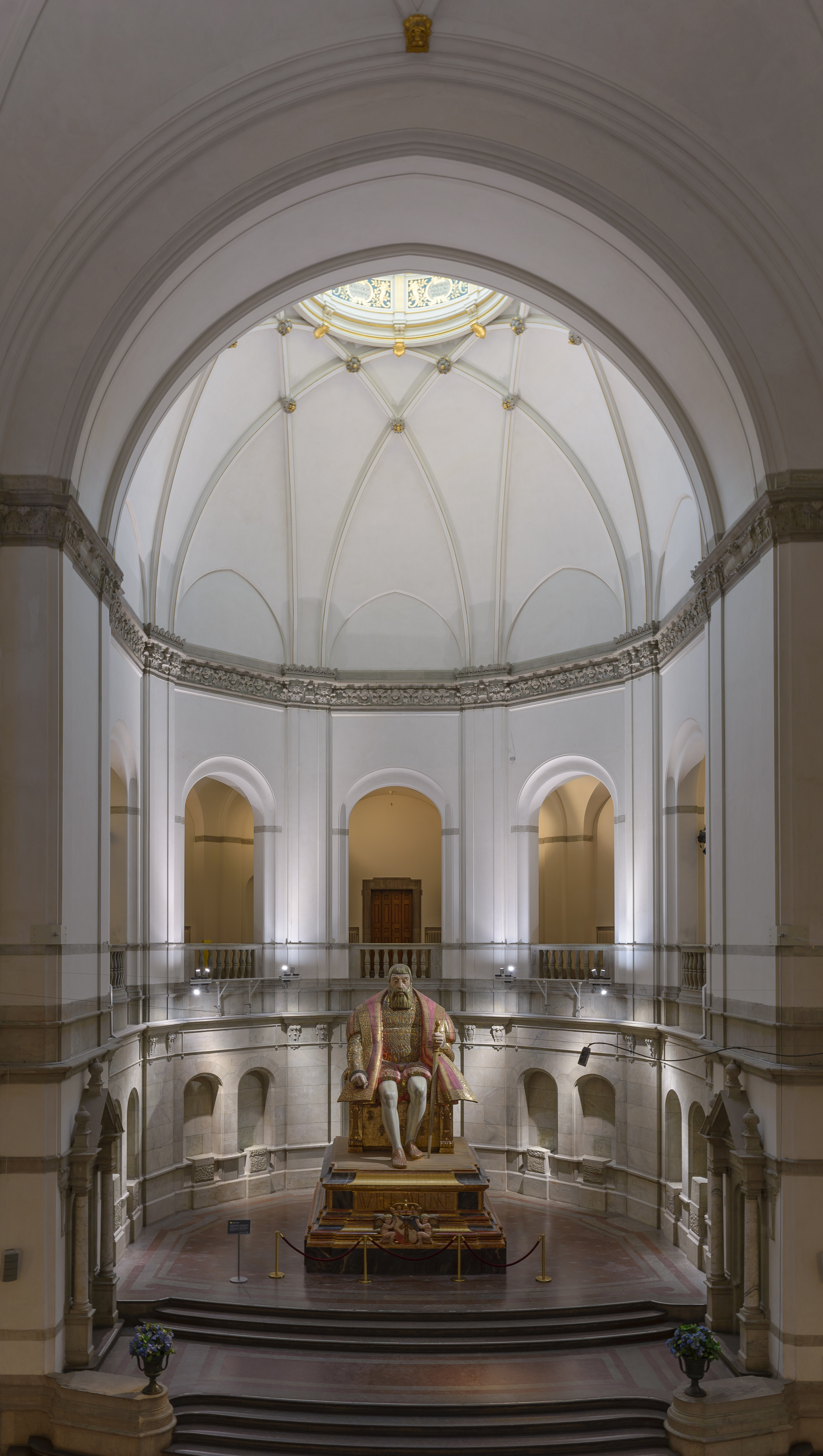 Gustav Vasa sculpture, main hall, Nordiska Museet.